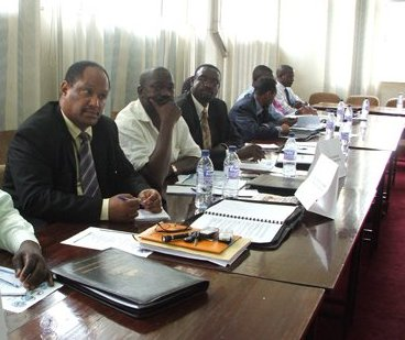 Omar Kassim (UCIFA Chairman) at a Workshop alongside Jad Johnsons Tabuley (Secretary General) and Lino Criel